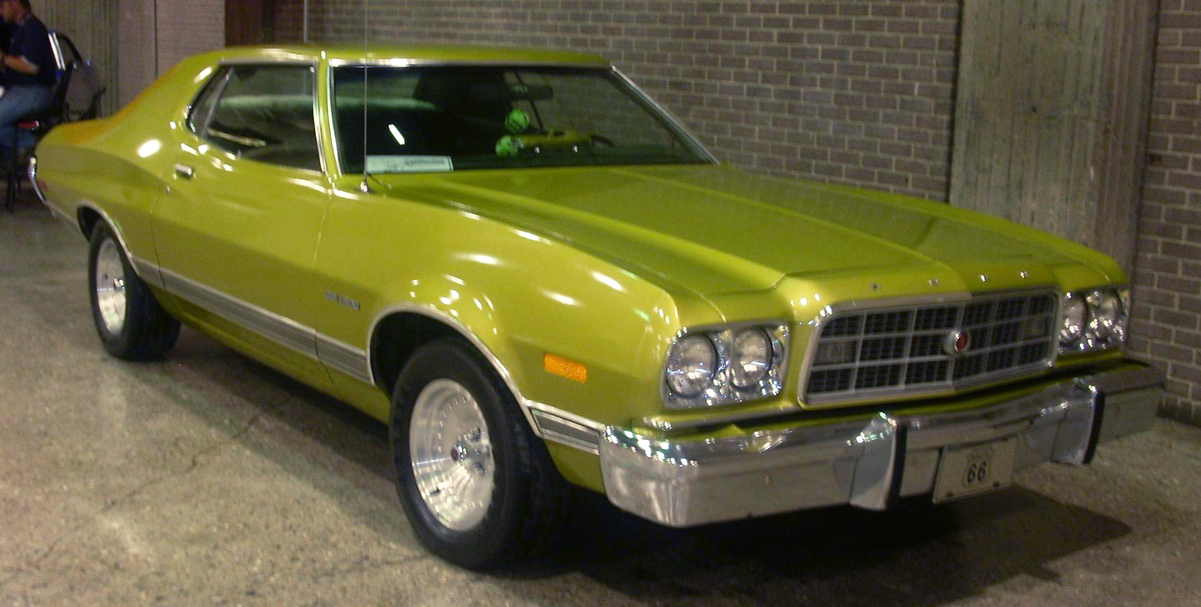 1973 Ford Gran Torino photographed at Auto classique Montréal 2008.